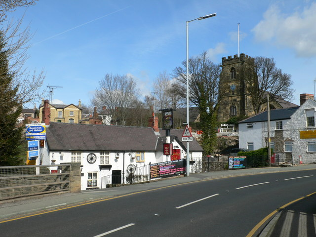 Ruabon The main street through Ruabon, with the Bridge End pub and St Mary's Church in the background.